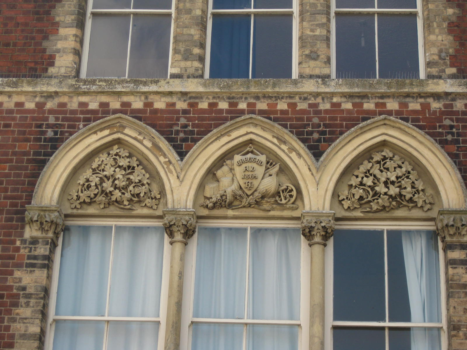 No 5 Bridge Street, Horncastle. Terracotta foliage decoration in tympana above window. Terracotta probably by Blashfield of Stamford.